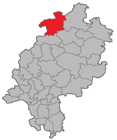 Map of the district court Korbach in Hesse